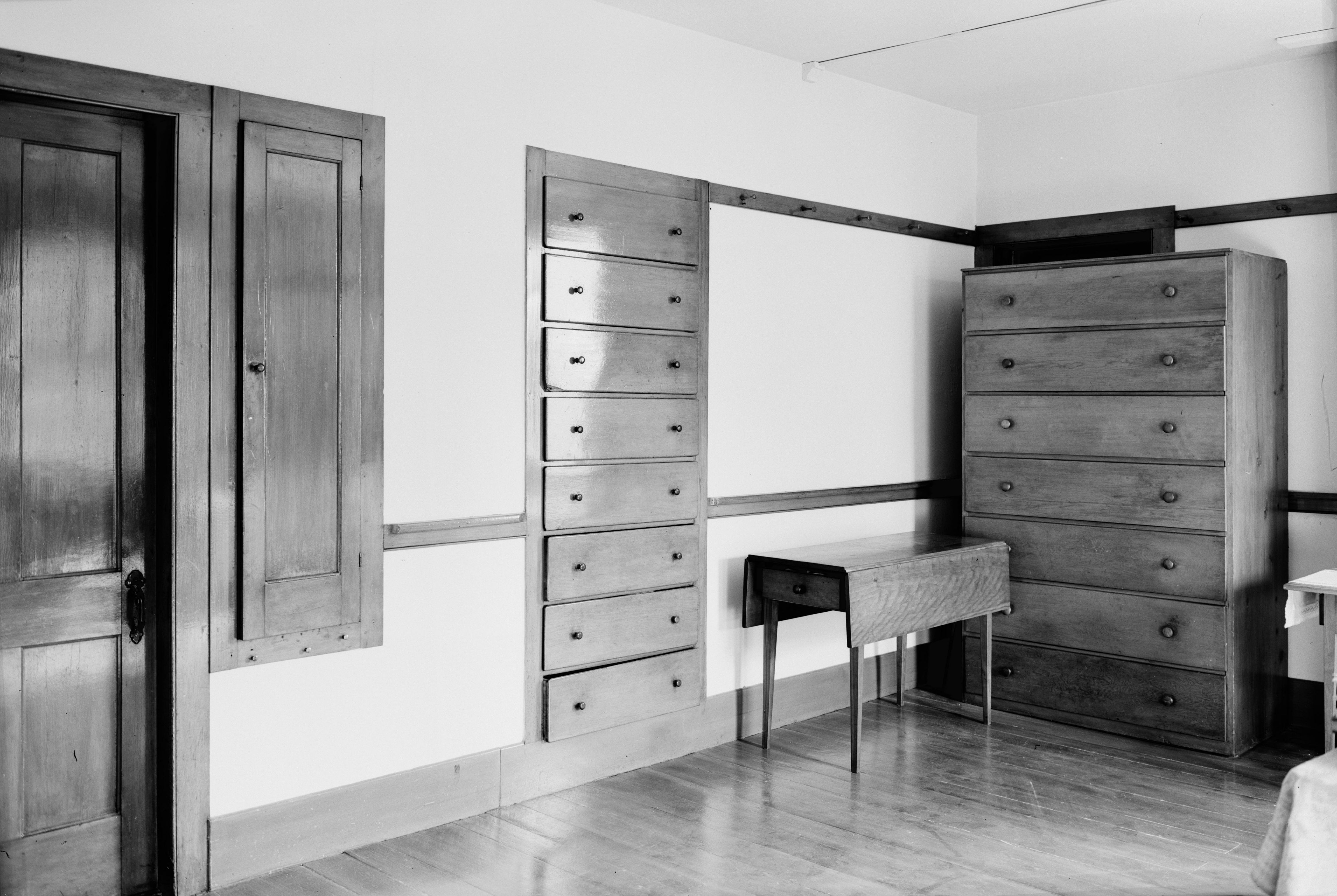 Furniture in Shaker Church Family House, Mount Lebanon, Columbia County, NY